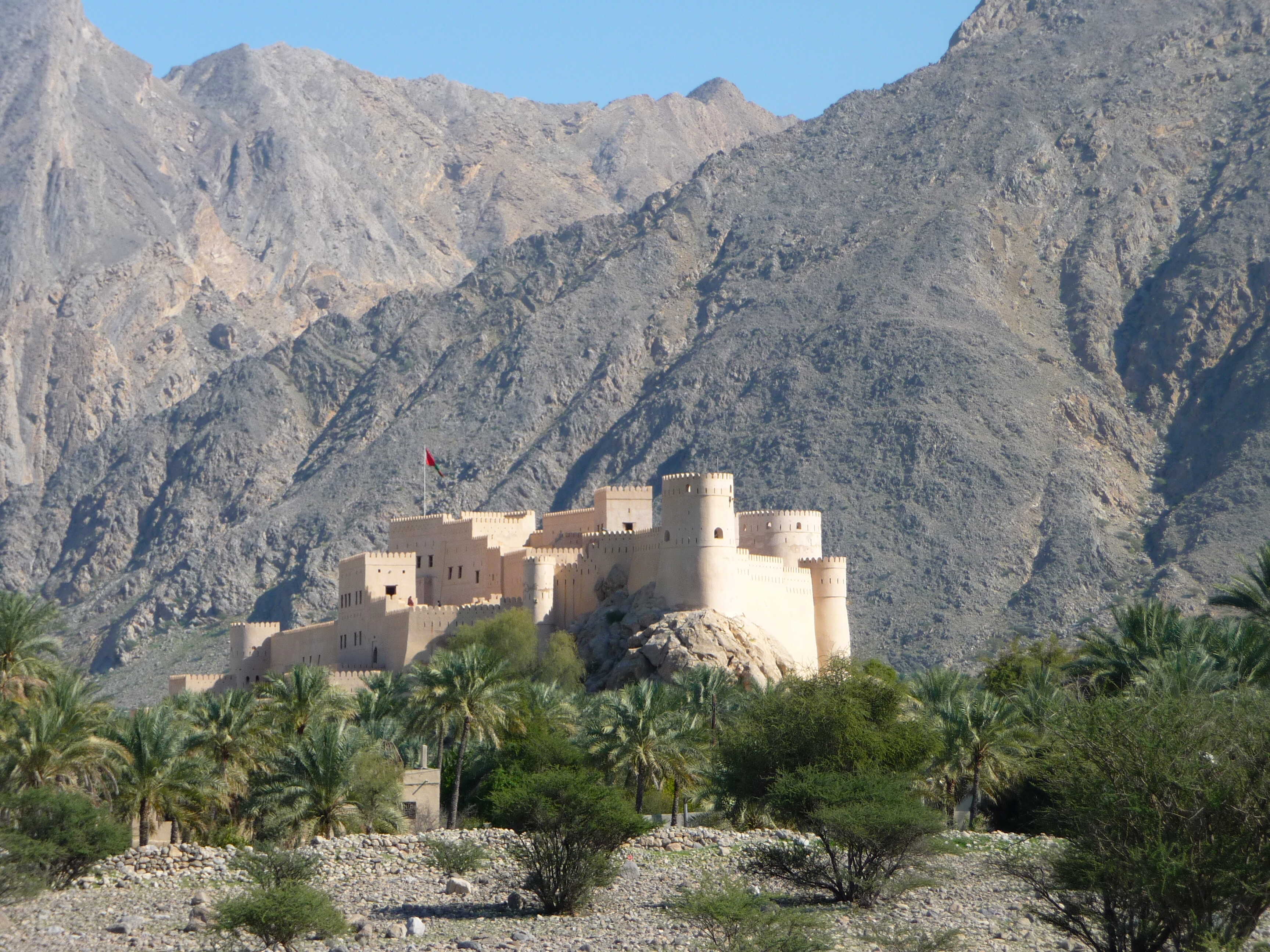 Fort An-Nakhal (Al-Batinah Region, Oman).